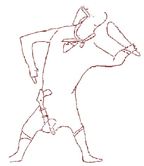 work.